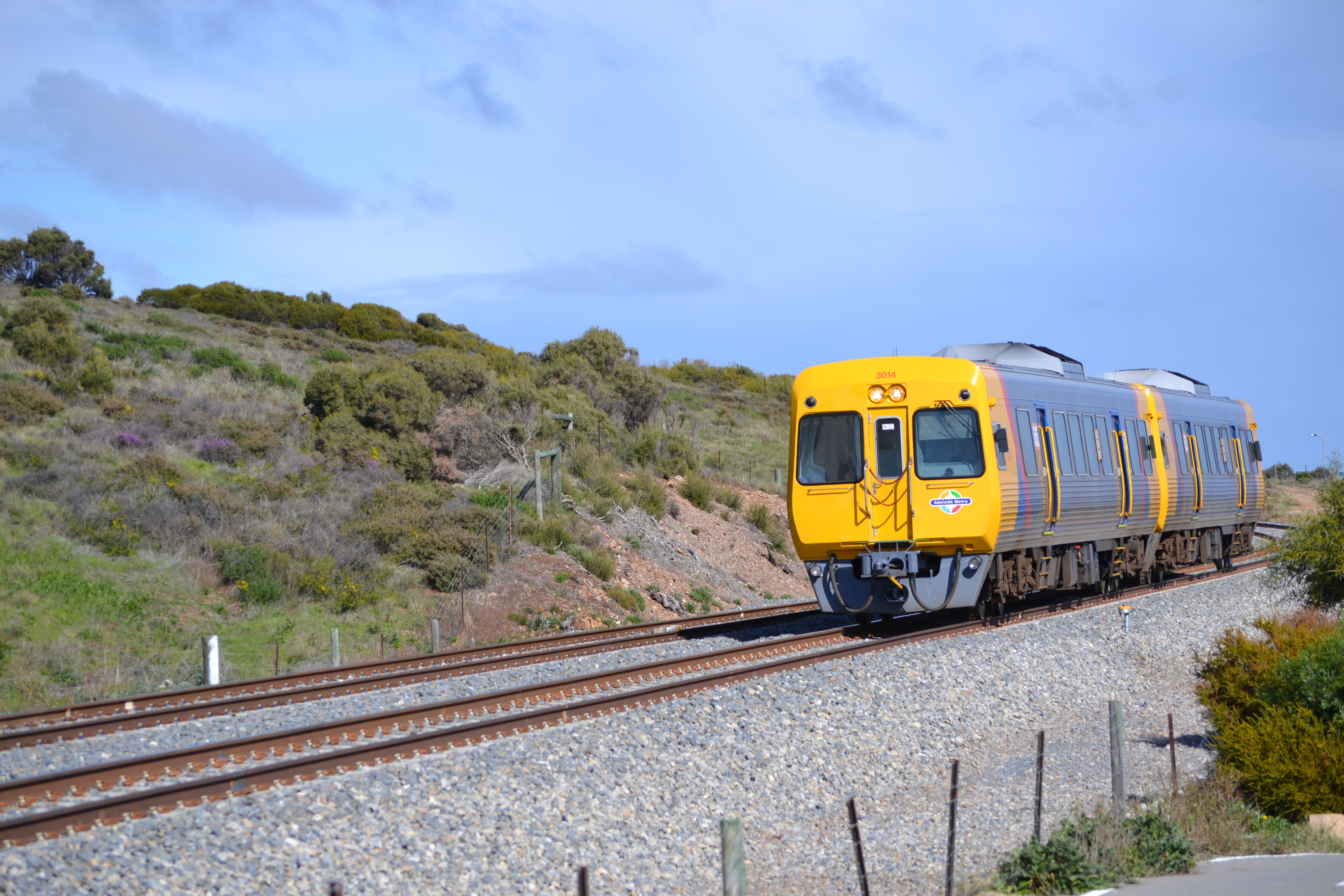 Noarlunga Centre railway line in August 2011.